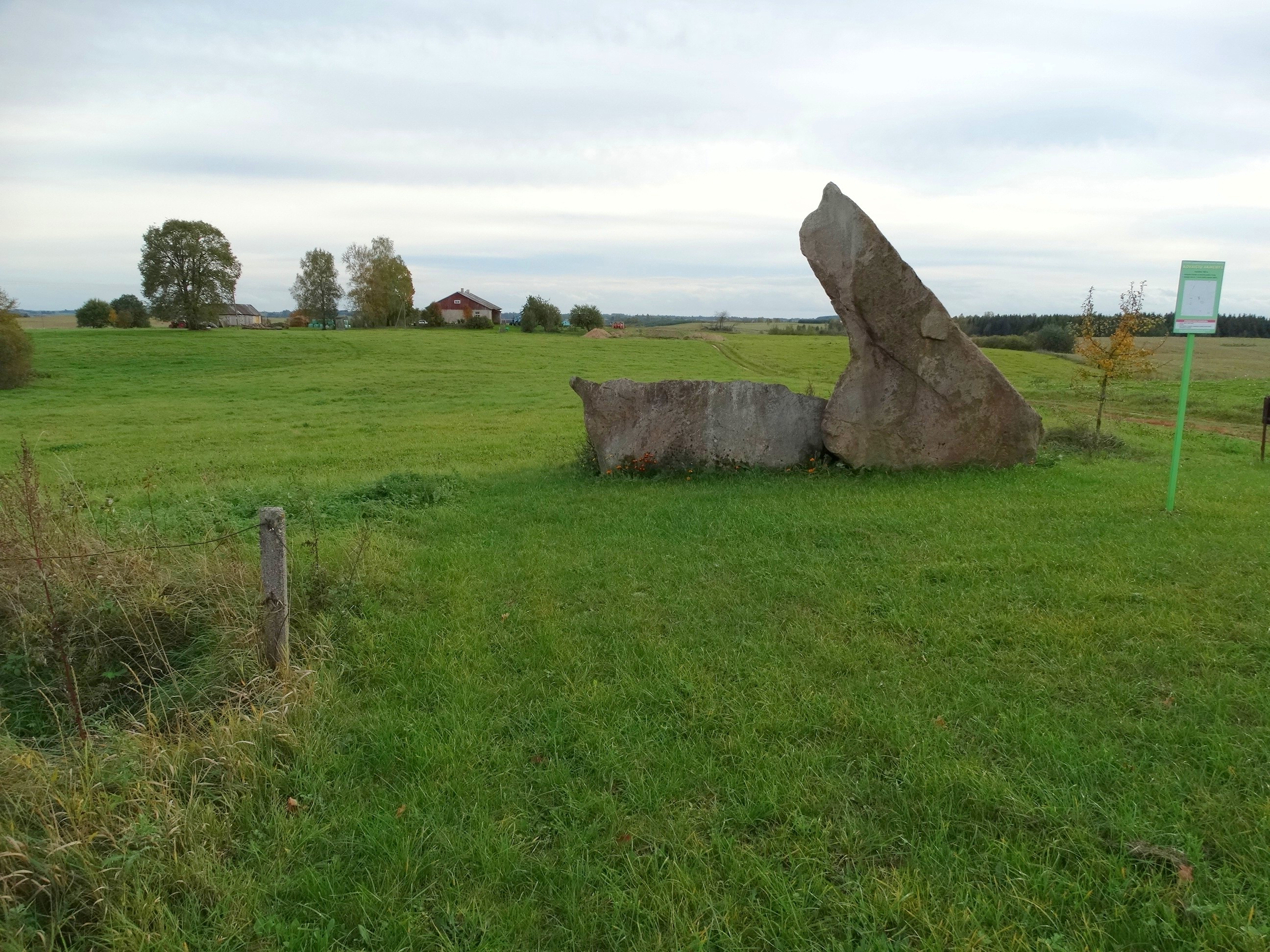 Stones in Kovaičiai, Kaišiadorys District, Lithuania